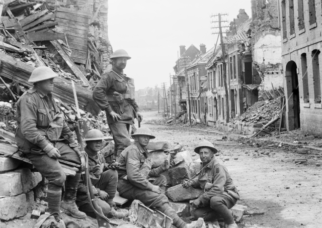 AWM caption : A machine gun position established by the 54th Battalion during the morning of the attack through Peronne. The photograph was taken the following day, after the capture of the town, when positions close to it had been taken. Pictured, left to right: Private Cullen, A Company, 53rd Battalion Private A. Storen, A Company, 54th Battalion unidentified (standing at back) Sergeant Kelly, 54th Battalion Private McSweeney, 54th Battalion See Battle of Mont St. Quentin.